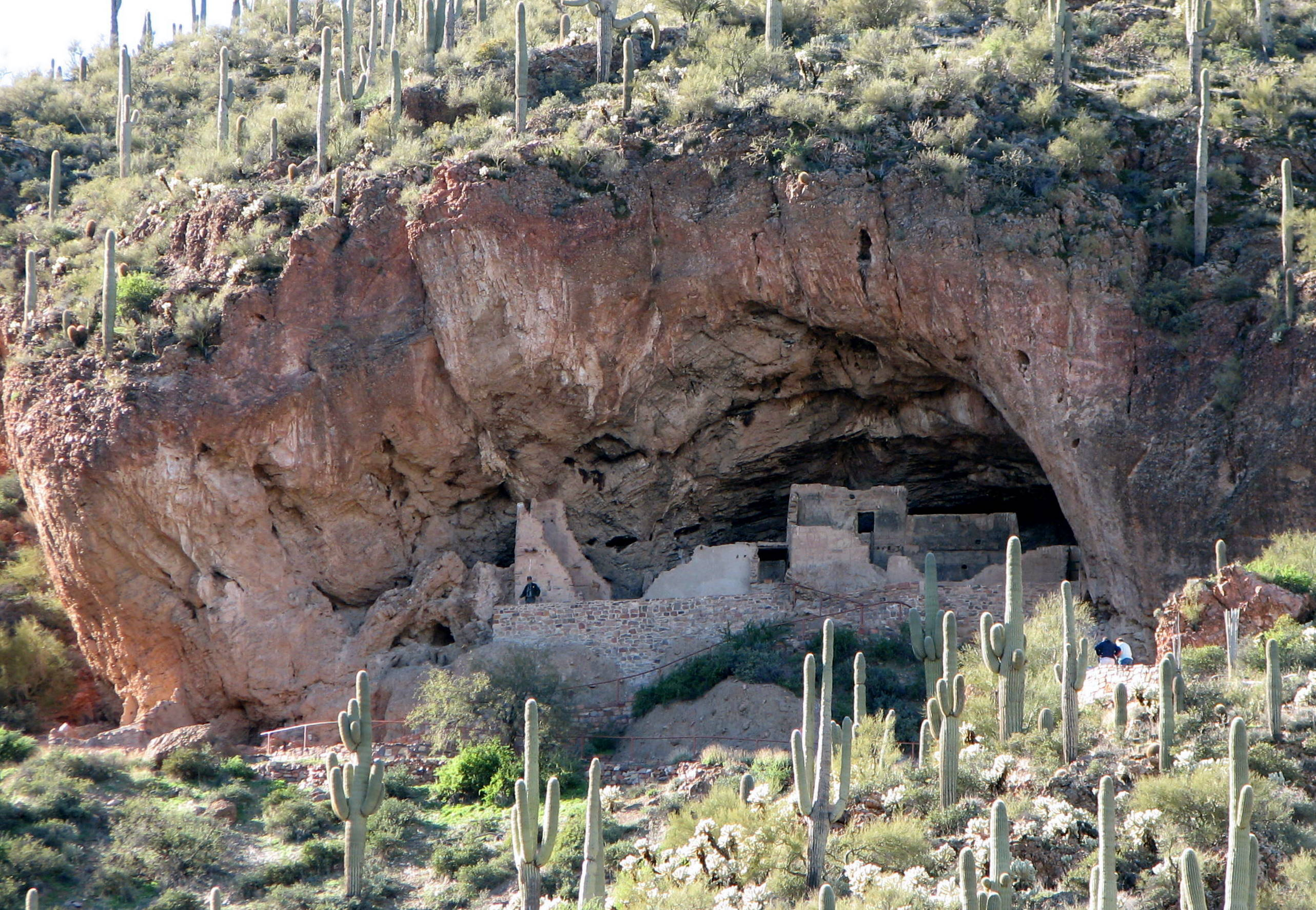 Lower Cliff Dwelling and desert habitat — Tonto National Monument Archeological District, Roosevelt, Arizona.